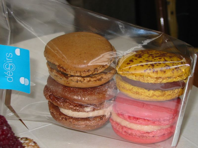 Photographed by user:Cantabilis